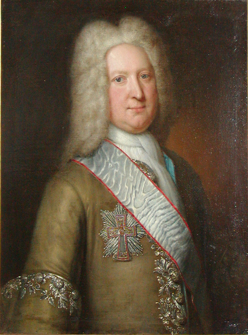 Portrait of Frederik Sohlenthal (1685-1752), Danish diplomat